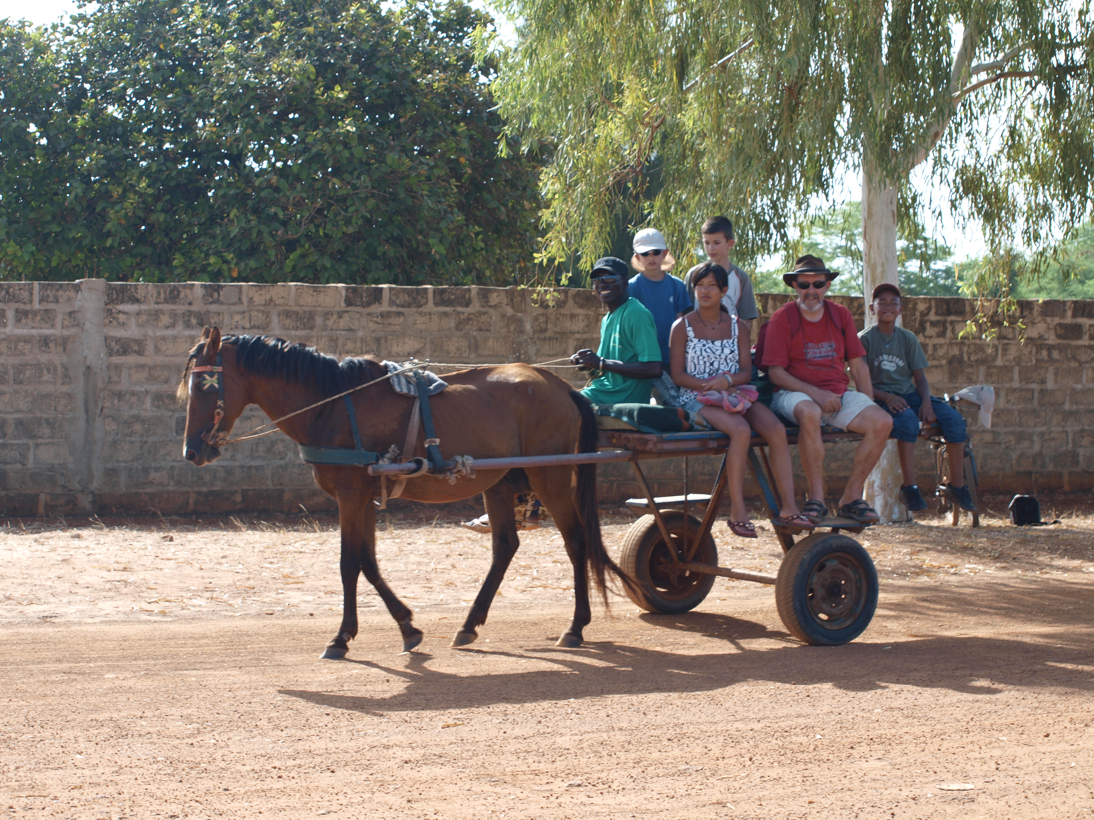 Charrette in Palmarin, Senegal